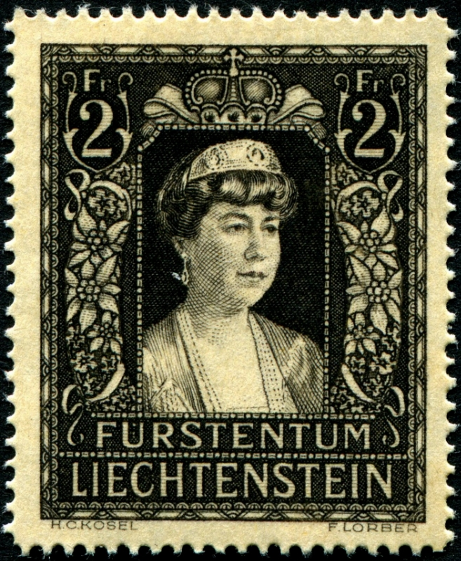 Elsa von Gutmann, known as: 6 January 1875 – 7 August 1908: Miss Elisabeth von Gutmann / 7 August 1908 – 22 July 1929: Baroness Géza Erős(s) of Bethlenfalva / 22 July 1929 – 25 July 1938: Her Serene Highness The Princess of Liechtenstein / 25 July 1938 – 28 September 1947: Her Serene Highness Princess Elisabeth of Liechtenstein